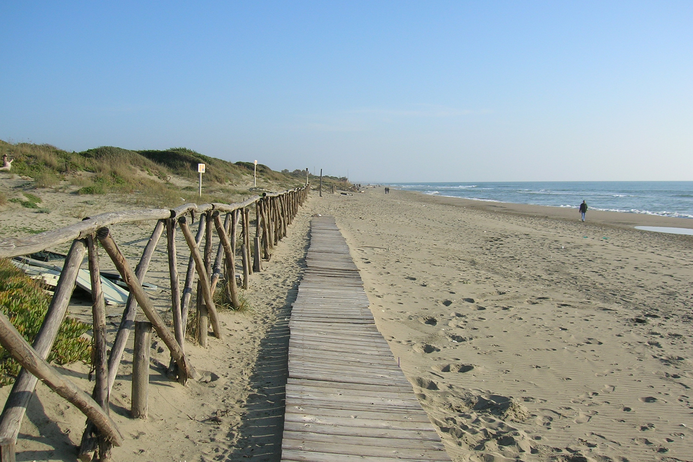 Capocotta beach, in Nature reserve "Litorale Romano", Ostia, Roma.